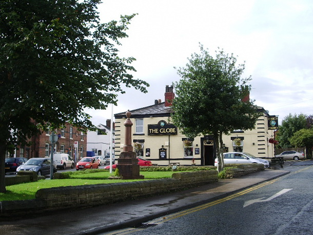 The Globe, High Street, Standish